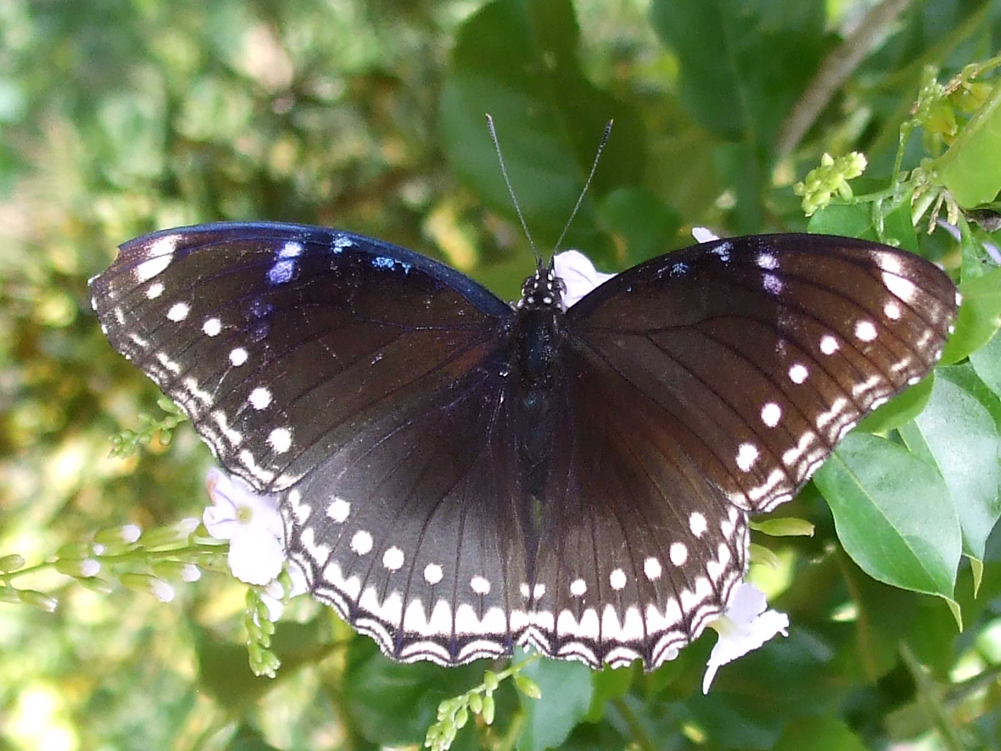 great egg fly female from kannur of kerala